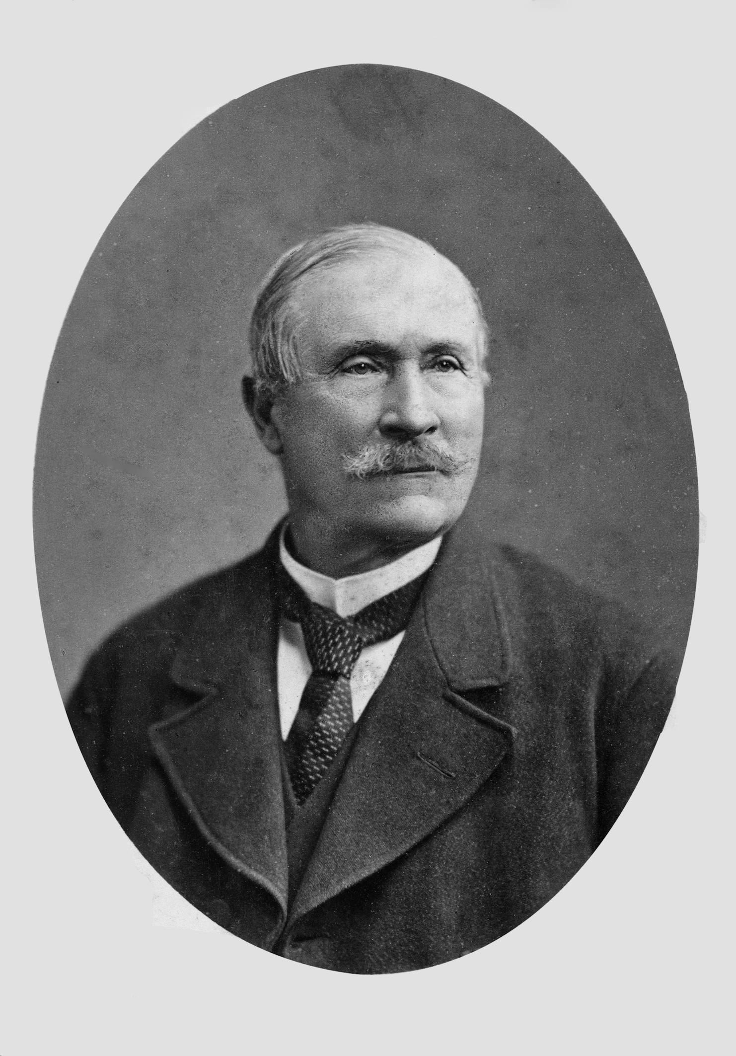 Graf Adolphus von der Decken (1807-1886)